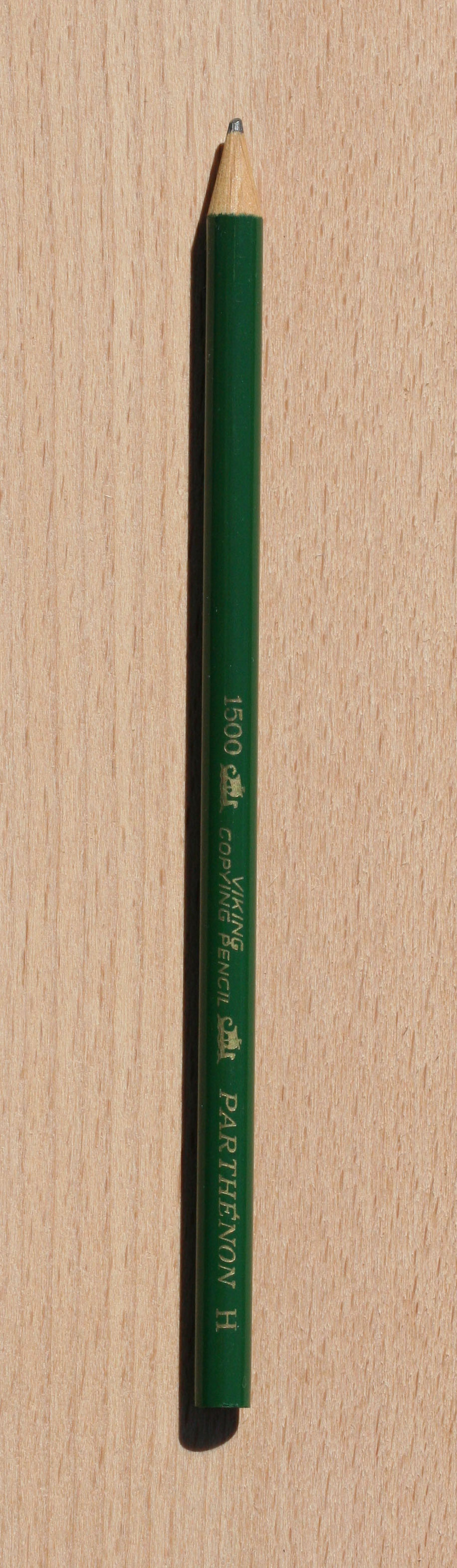 copying pencil